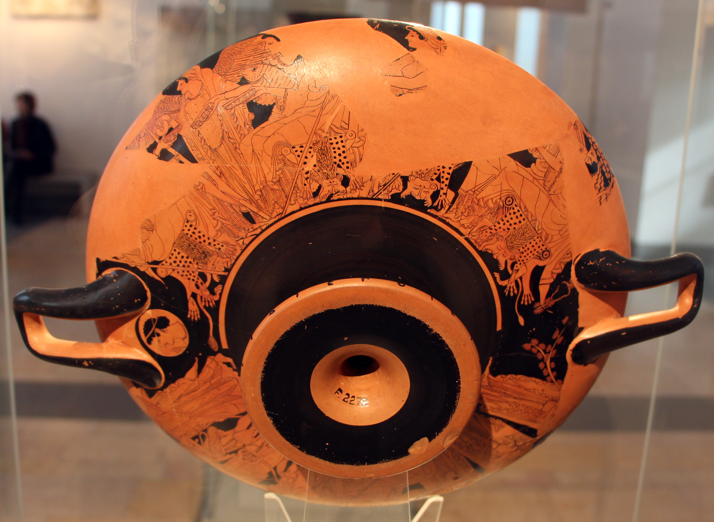 Ancient Greek pottery in the Antikensammlung Berlin